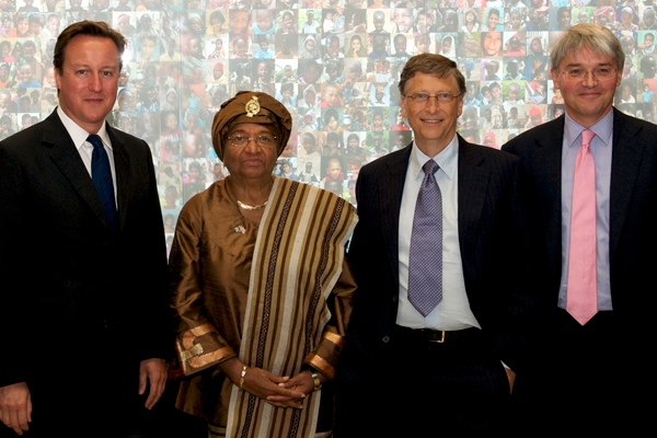 Prime Minister David Cameron, President Ellen Johnson-Sirleaf of Liberia, Bill Gates and Secretary of State for International Development, pictured at the GAVI Alliance immunisations pledging conference in London, June 13 2011 Picture: Ben Fisher/GAVI Alliance Terms of use This image is posted under a Creative Commons - Attribution Licence , in accordance with the Open Government Licence . You are free to embed, download or otherwise re-use it, as long as you credit the source as 'Ben Fisher/GAVI Alliance'.